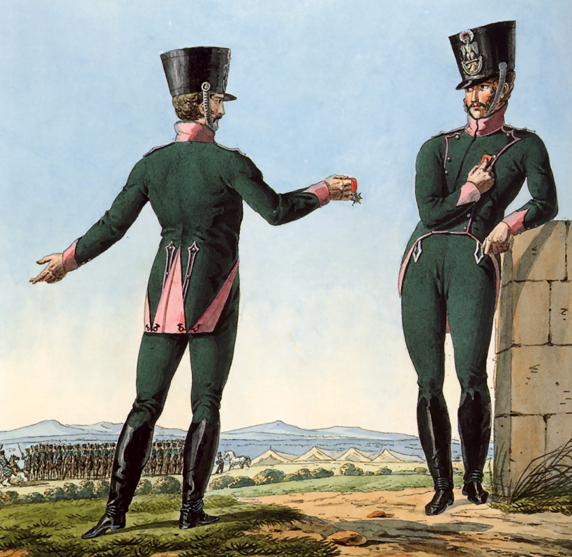 Part of a series chronicling the uniforms of Napoleon's Grande Armée.